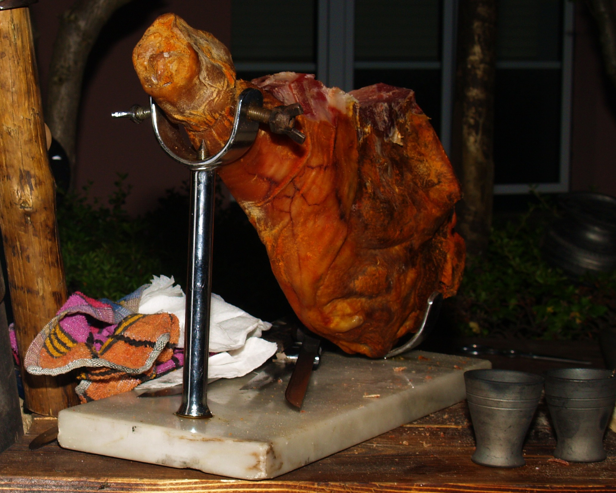 Presunto de Chaves, a typical ham from Chaves, Portugal